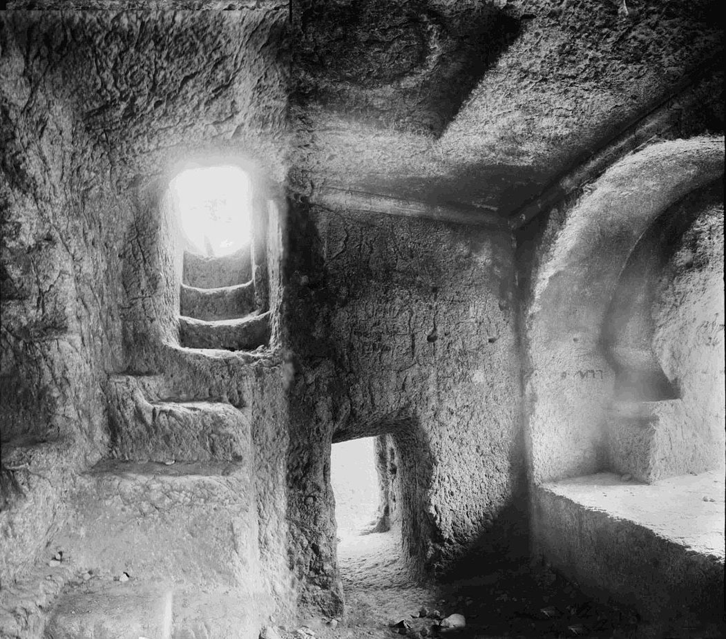 Inside Absolom's Pillar, created from two original images.